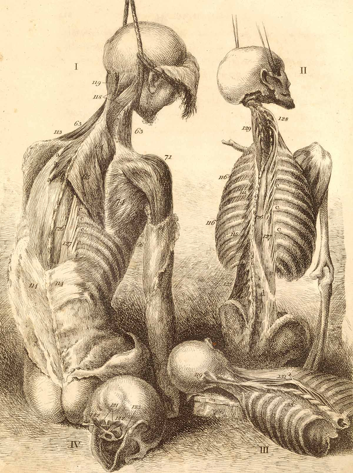 Etching of the bones, muscles, and joints, illustrating the first volume of the Anatomy of the Human Body. 2d ed. London, 1804. Etching. National Library of Medicine.